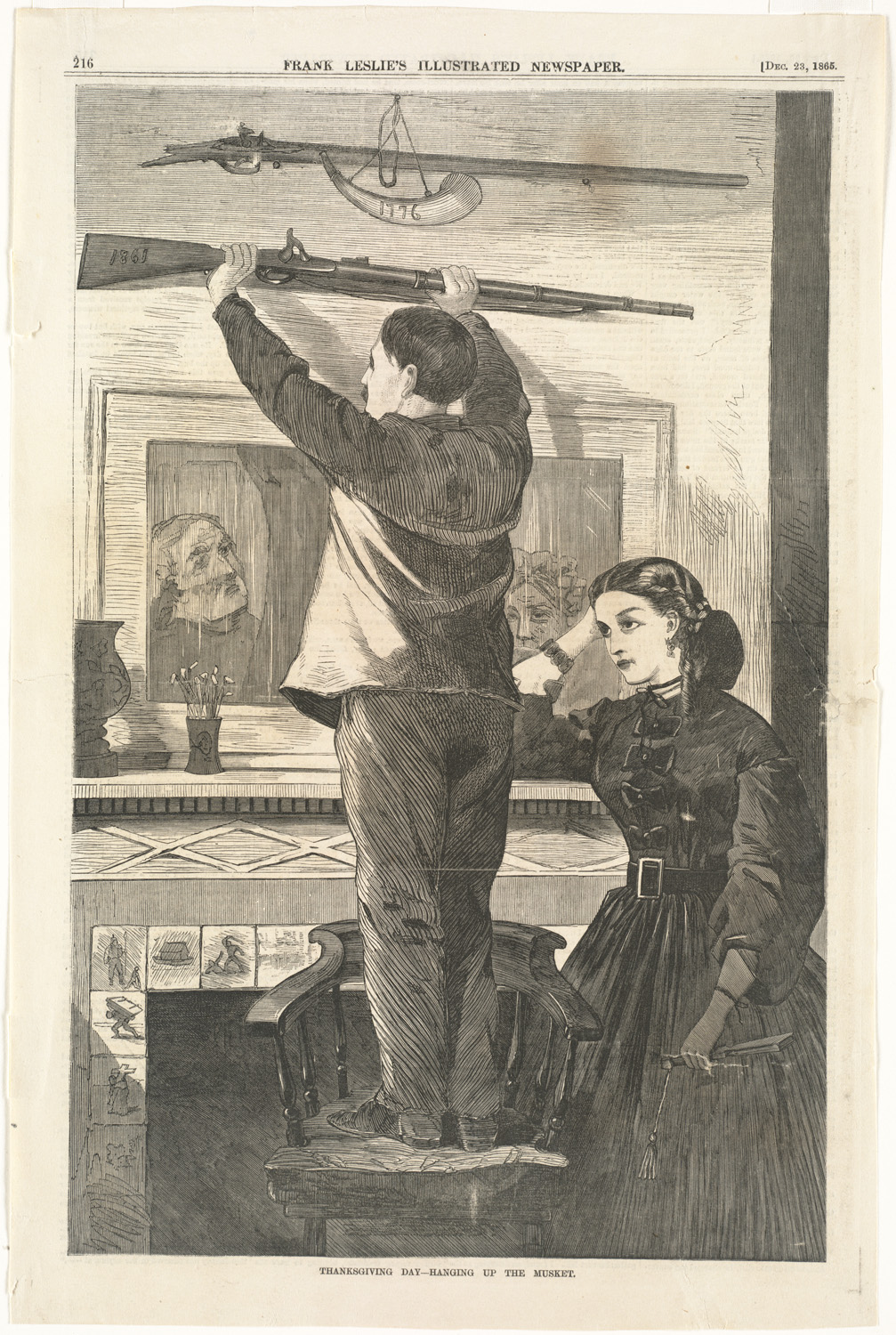 File name: 10_09_000169 Title: Thanksgiving Day -- Hanging up the musket Creator/Contributor: Homer, Winslow, 1836-1910 (artist) Date issued: 1865-12-23 Physical description: 1 print : wood engraving Genre: Wood engravings; Periodical illustrations Notes: Published in: Frank Leslie's Illustrated News Paper, 23 December 1865. Collection: Winslow Homer Collection Location: Boston Public Library, Print Department Rights: No known restrictions Flickr data on 2011-08-11: Camera: Sinar AG Sinarback 54 FW, Sinar m Tags: Winslow Homer User: Boston Public Library BPL